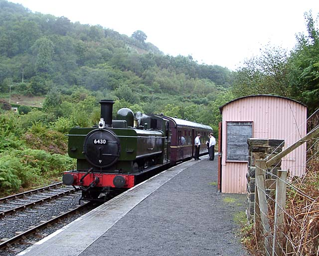 Waiting time at Dan y Coed Halt